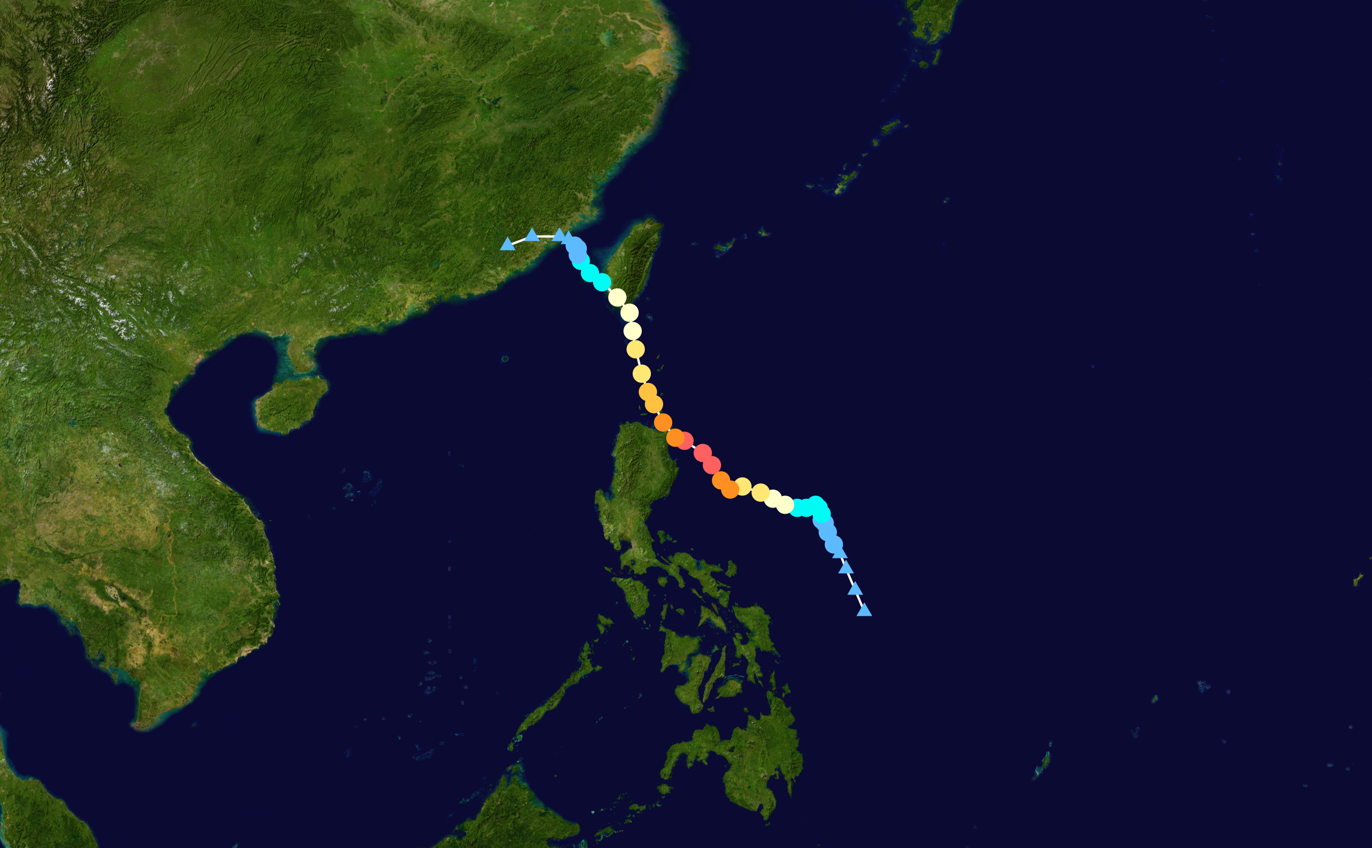 Track map of Typhoon Nanmadol of the 2011 Pacific typhoon season. The points show the location of the storm at 6-hour intervals. The colour represents the storm's maximum sustained wind speeds as classified in the Saffir–Simpson scale (see below), and the shape of the data points represent the nature of the storm, according to the legend below. Saffir–Simpson scale Tropical depression≤38 mph≤62 km/h Category 3111–129 mph178–208 km/h Tropical storm39–73 mph63–118 km/h Category 4130–156 mph209–251 km/h Category 174–95 mph119–153 km/h Category 5≥157 mph≥252 km/h Category 296–110 mph154–177 km/h Unknown Storm type Tropical cyclone Subtropical cyclone Extratropical cyclone / Remnant low / Tropical disturbance / Monsoon depression